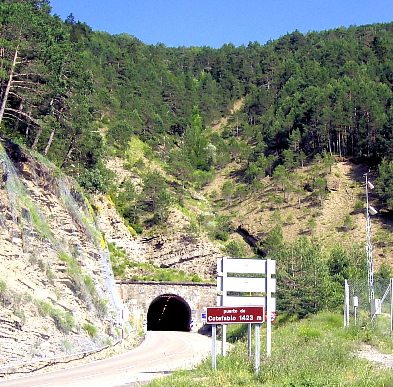 East portal of the tunnel of Cotefablo, Spain